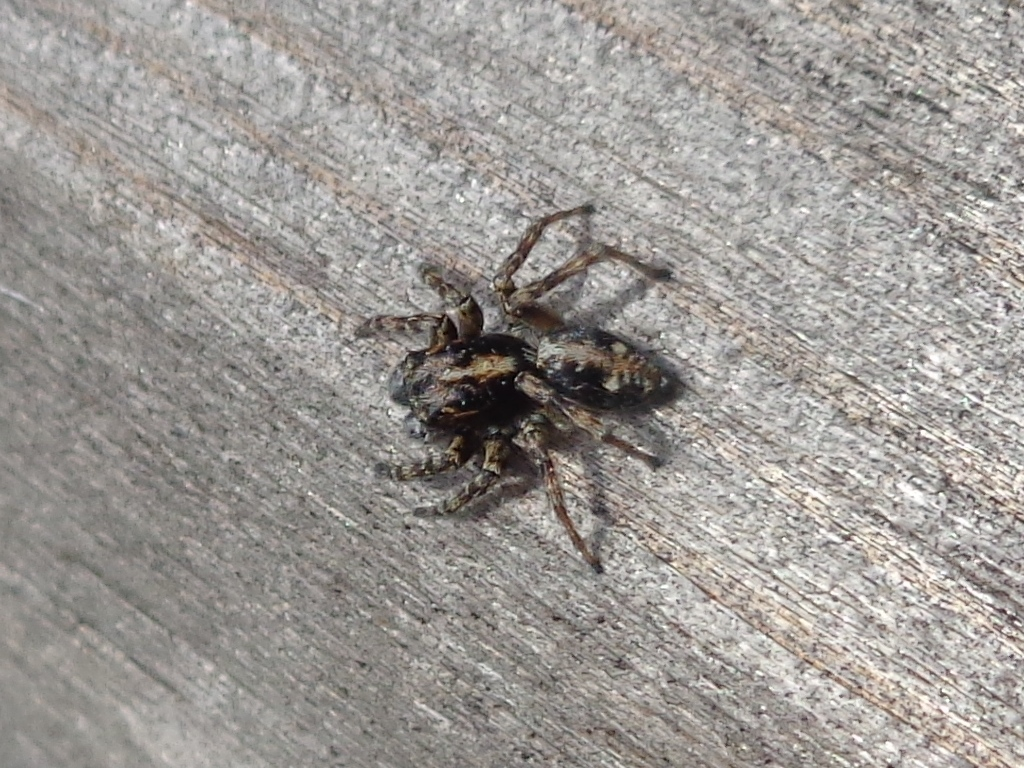 Sitticus terebratus. Found in Audriņi village near Rēzekne city, Latvia